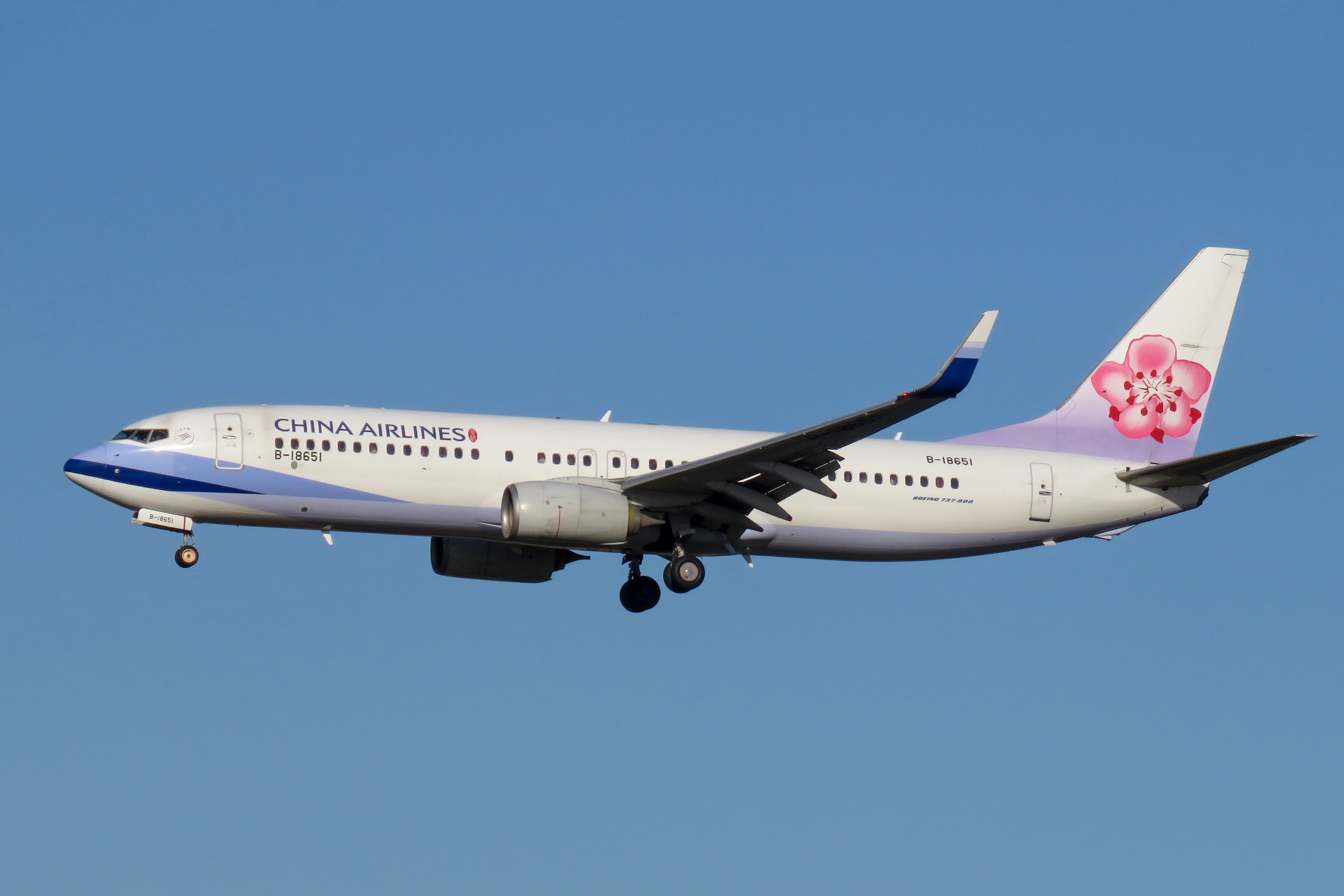 Dynasty 591 from Kaohsiung. This flight is only available on Mondays.